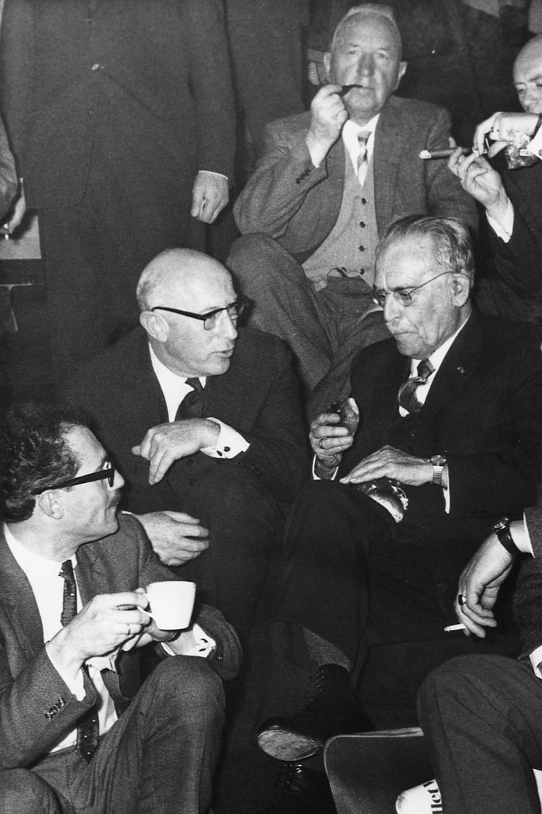 A convention of the Dutch social-democratic party the P.V.D.A., with the politicians Drees and Samkalden held in Nijmegen (the Netherlands)